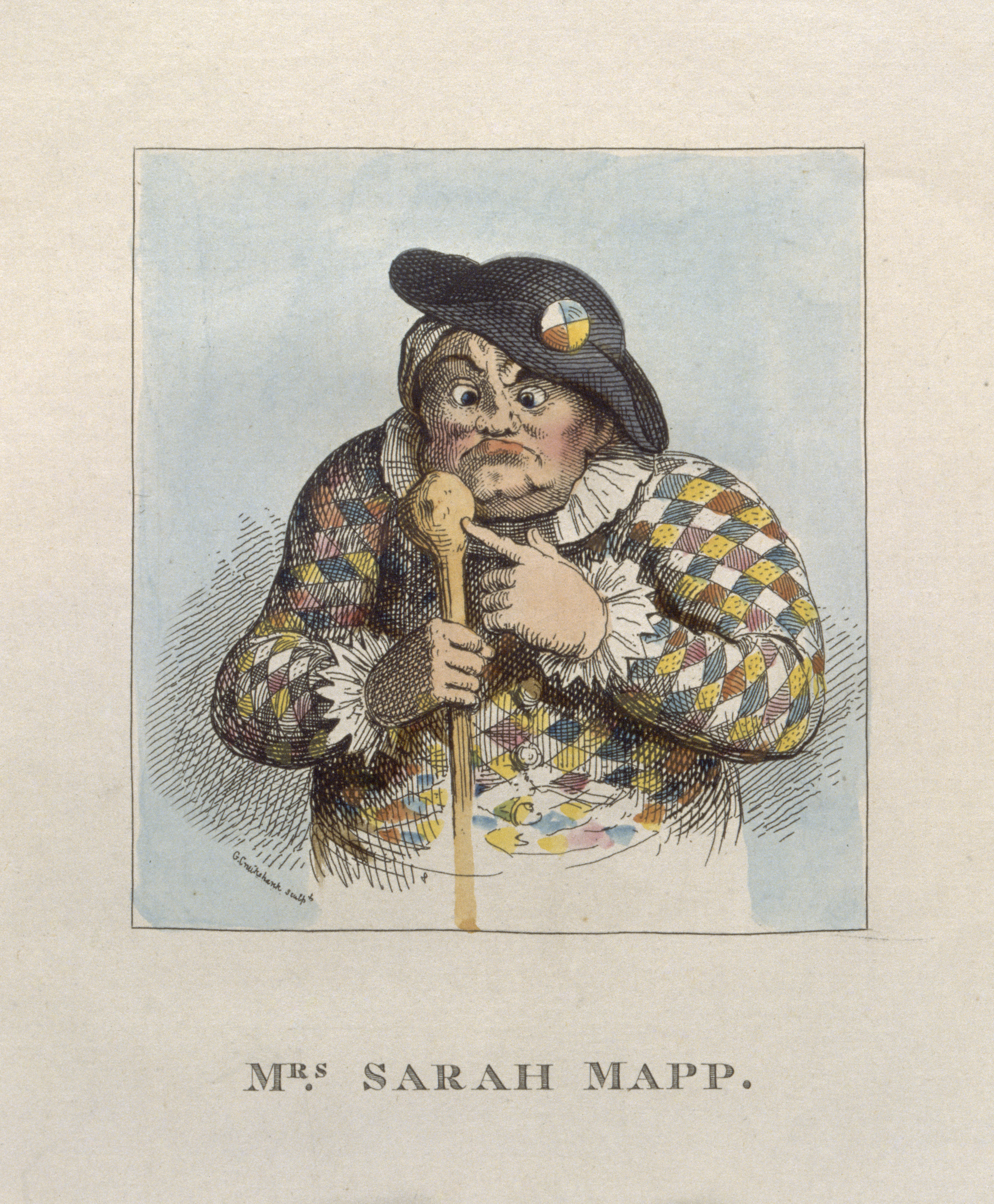 Sarah Mapp. Coloured etching by G. Cruikshank, 1819, after W. Hogarth. Iconographic Collections Keywords: portrait prints; Sarah Mapp; George Cruikshank; etchings; William Hogarth